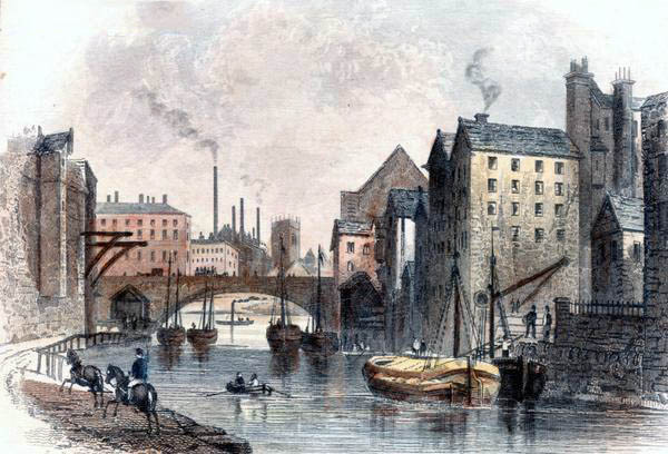 Bridges and Viaducts, Albert Bridge, River Irwell, Manchester. Content-aware fill used to remove Manchester Council copyright notice (no such copyright applies)